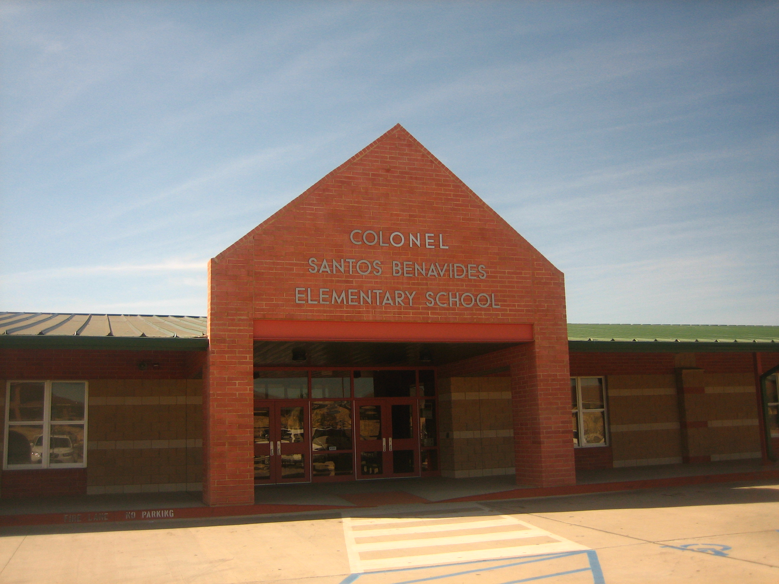 I took photo on Oct. 24, 2008.Billy Hathorn (talk) 21:48, 24 October 2008 (UTC)